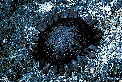 A specimen of Colobocentrotus atratus the Shingle Urchin